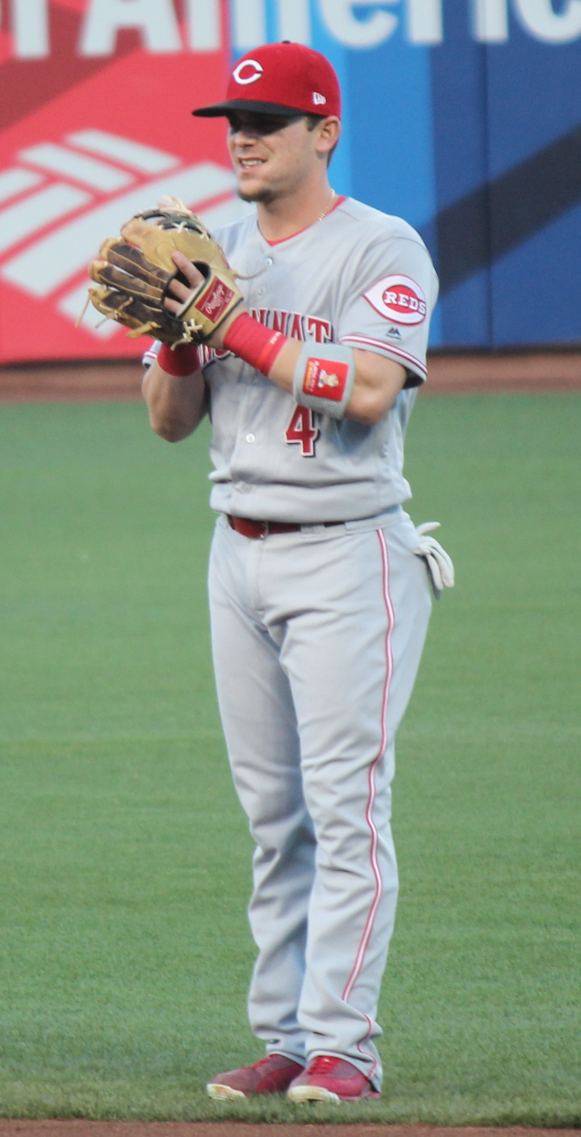 Photo of Scooter Gennett playing for the Cincinnati Reds on May 12, 2017.